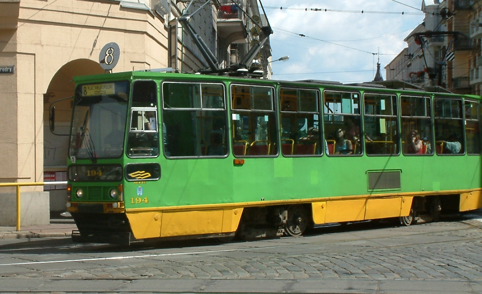 Tram type Konstal 105N (#194) in Poznań, Poland. Built 1979, MPK Poznań operator.